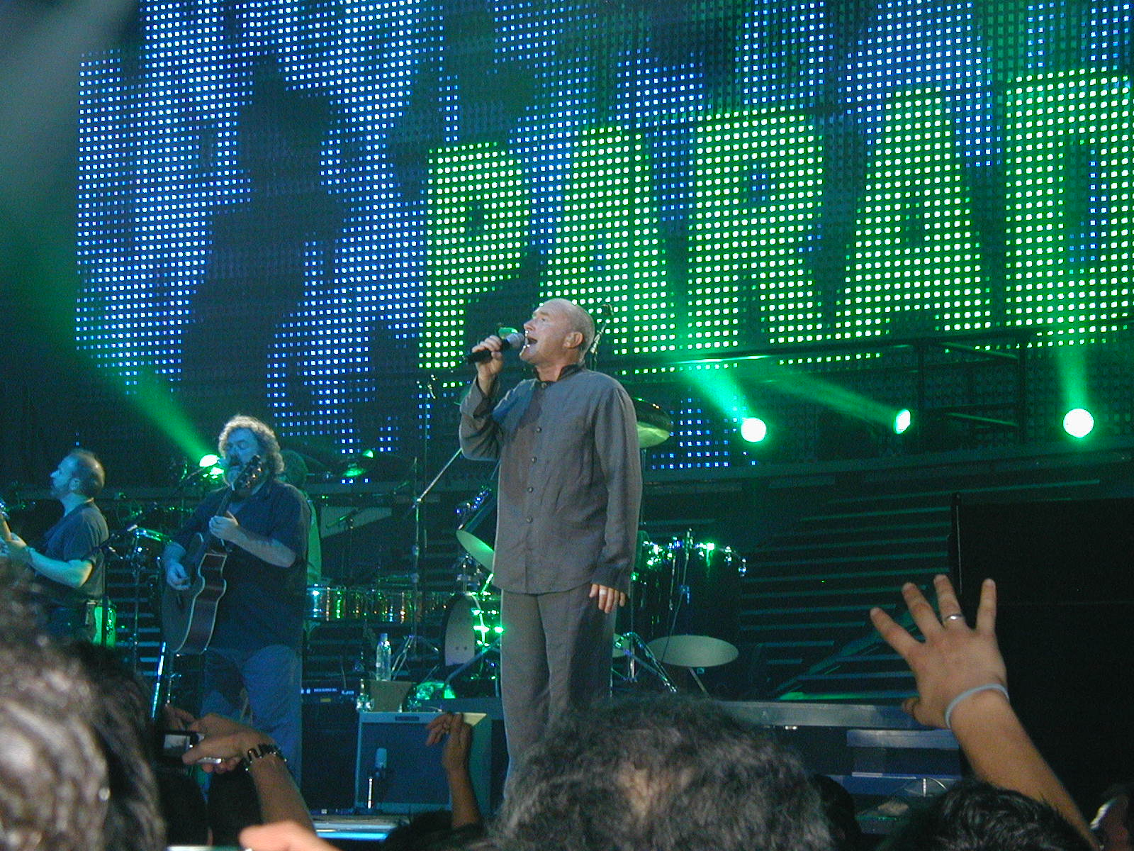 Phil Collins Barcelona - 2004